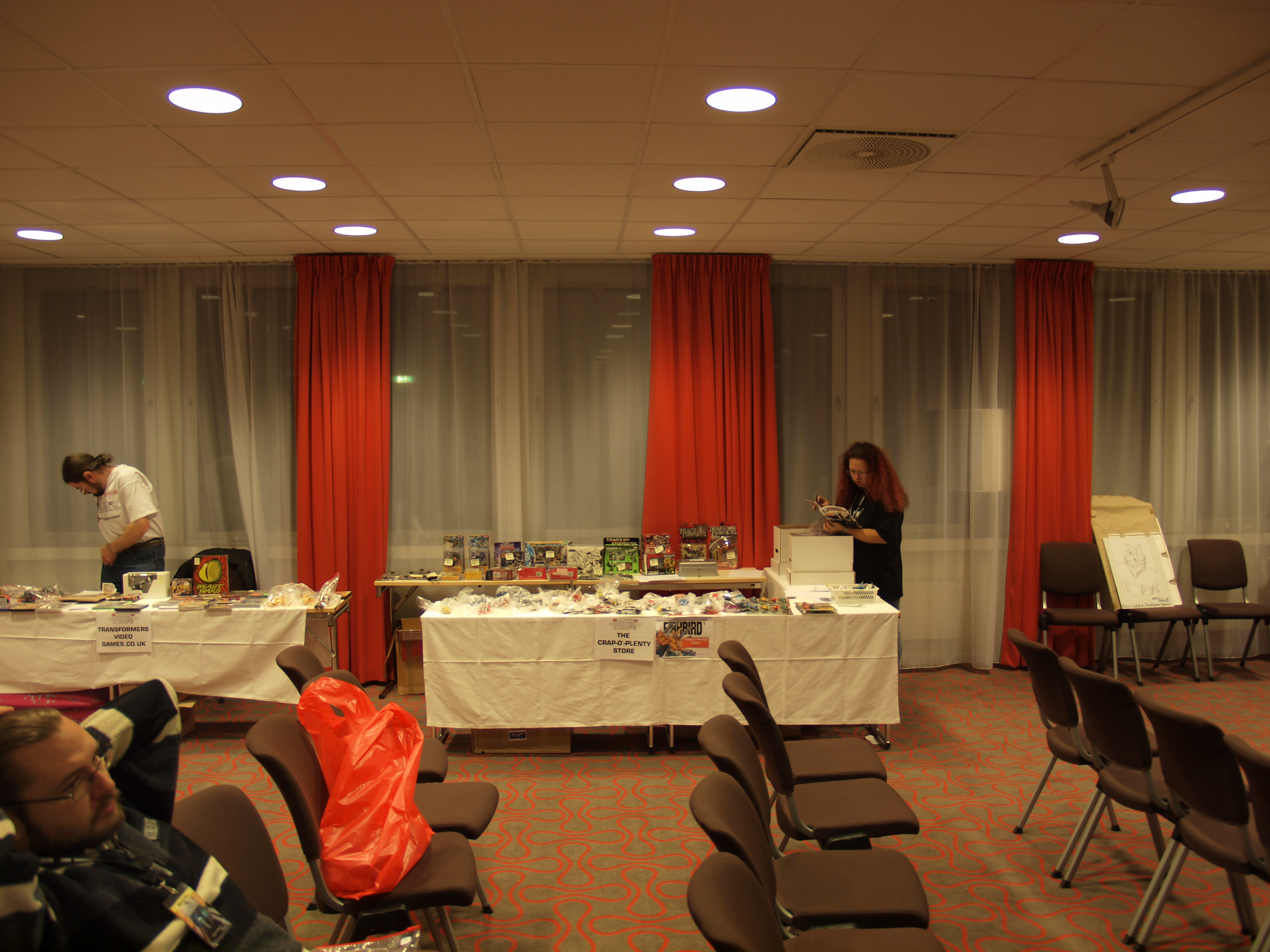 Dealer tables at Auto Assembly Europe 2011 in Uppsala, Sweden. Uploaded with permission from the organisers.